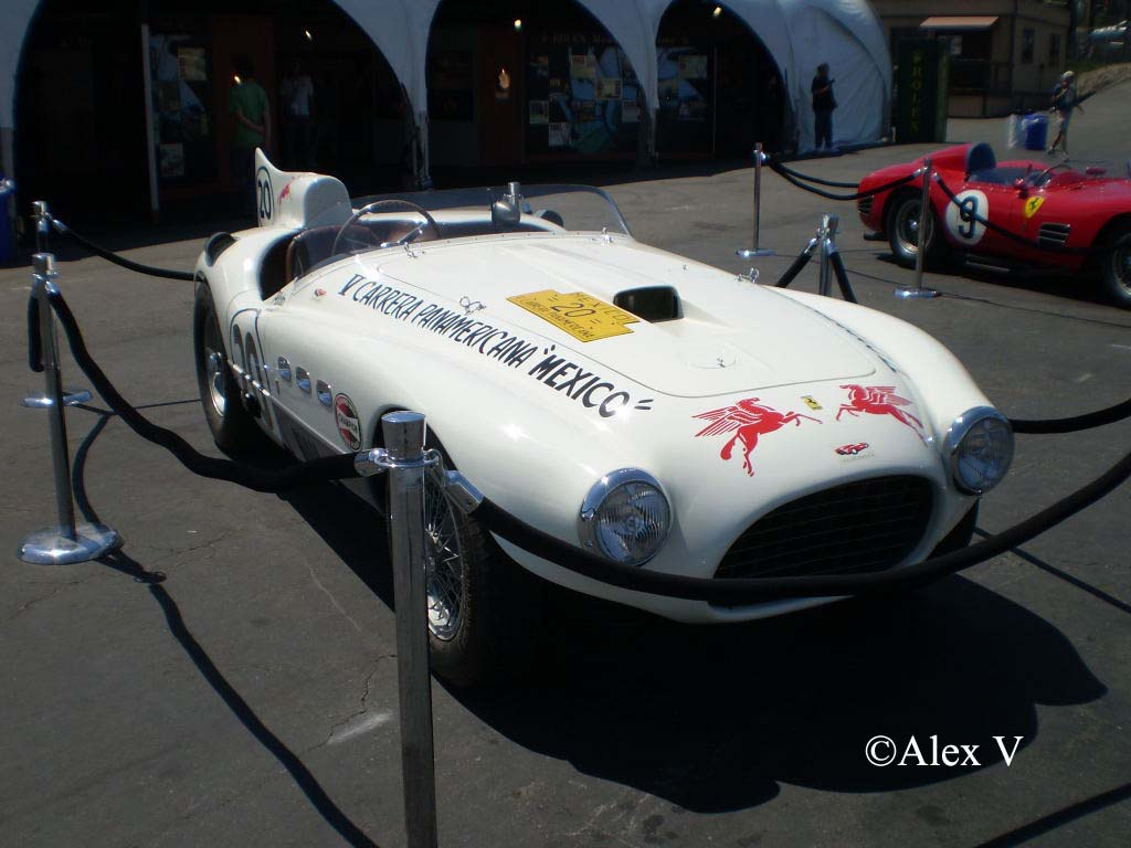 1953 Ferrari 375 MM Vignale Spyder s/n 0286AM – at Monterey Historics 2008